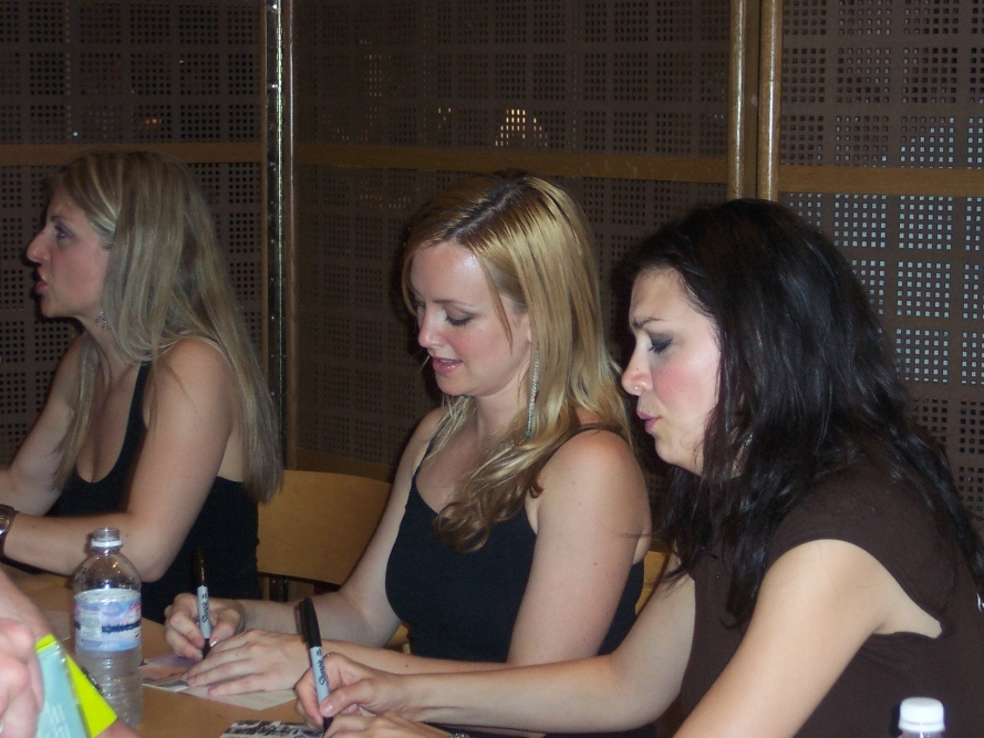 Shaye band on June 9, 2004